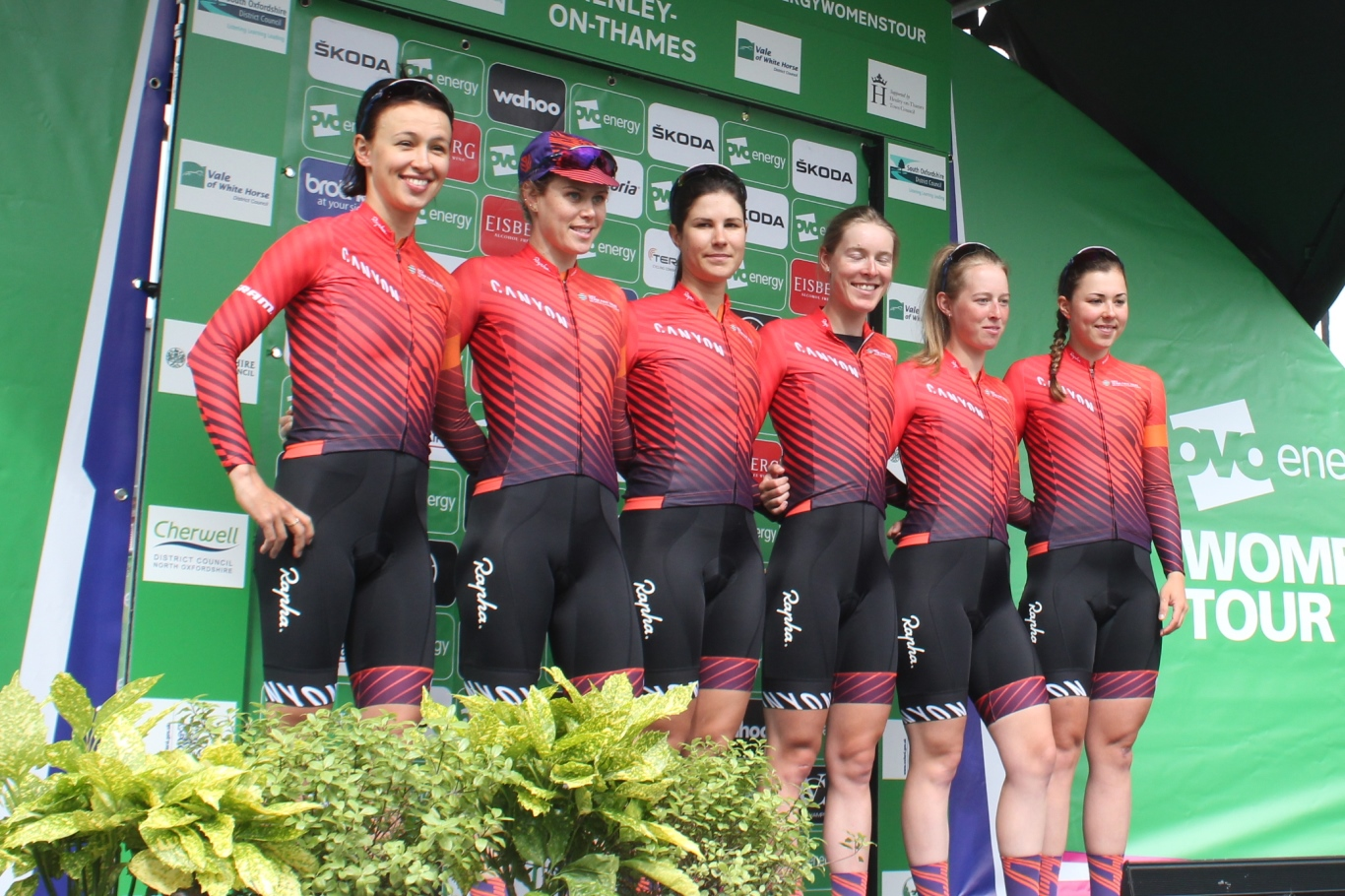 The Canyon//SRAM team at the start of day three of the 2019 Women's Tour. Their riders are Kasia Niewiadoma, Alice Barnes, Hannah Barnes, Elena Cecchini, Tiffany Cromwell and Lisa Klein.